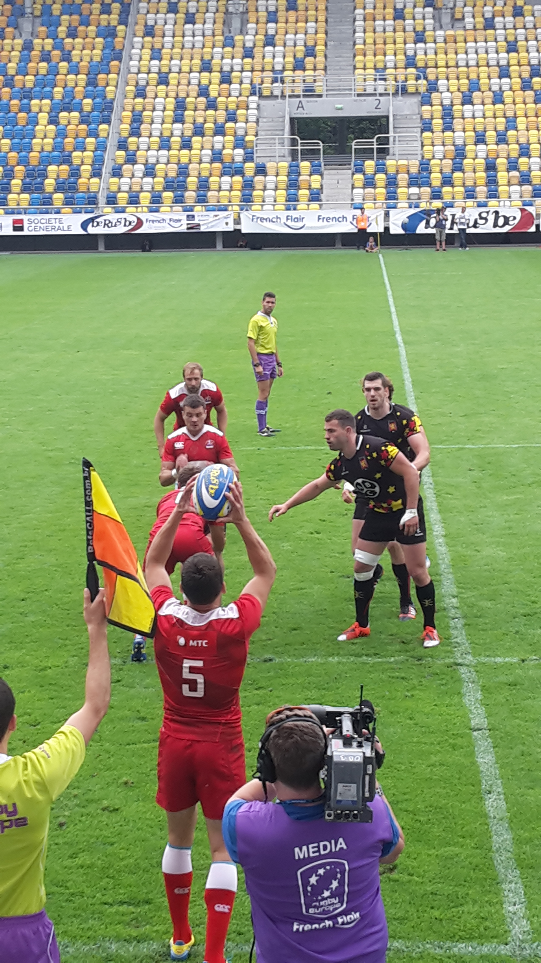 Rugby sevens tournament Gdynia Sevens 2016. Match Russia-Belgium.